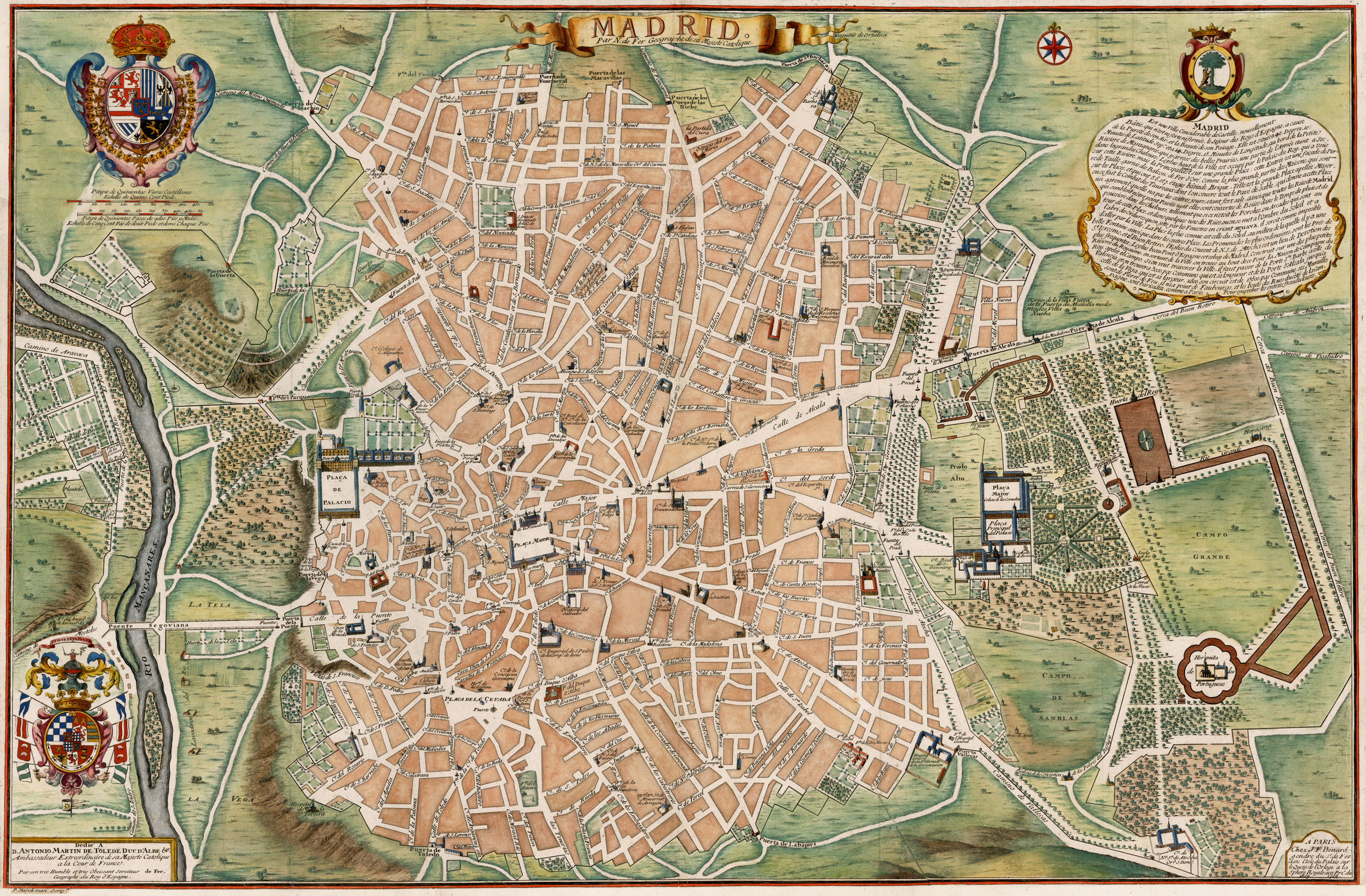 Decorative large plan of Madrid, originally issued by Nicolas De Fer and published in Paris by his son in law, J.F. Benard. De Fer's map of Madrid is one of the largest obtainable maps of the Spanish Capital published in the first half of the 18th Century. Embellished with two large coats of arms, the map identifies buildings, roads, plazas, churches, parks bridges, and a host of other details on a large scale, including profile views of many of the largest buildings. The plan if quite rare on the market, this being the first example we have seen on the market in nearly 20 years.